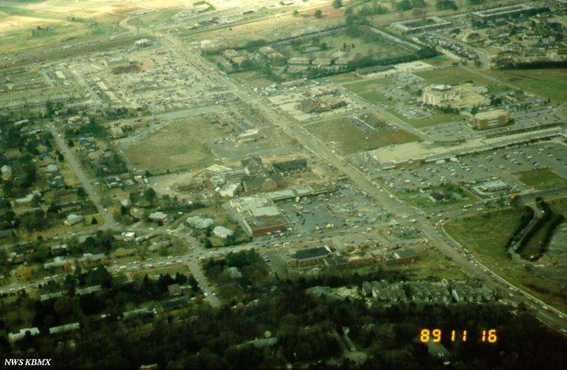 Damage from the November 15, 1989 tornado to strike Huntsville, Alabama, photographed by NWS Birmingham during their storm survey.